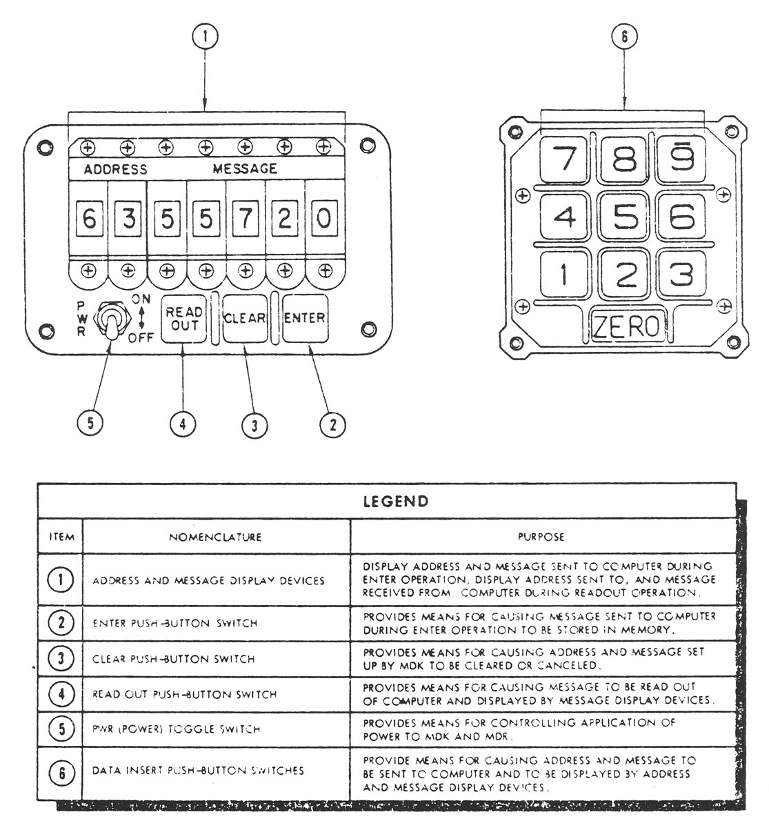 The Manual Data Insertion Unit of the Gemini Digital Computer